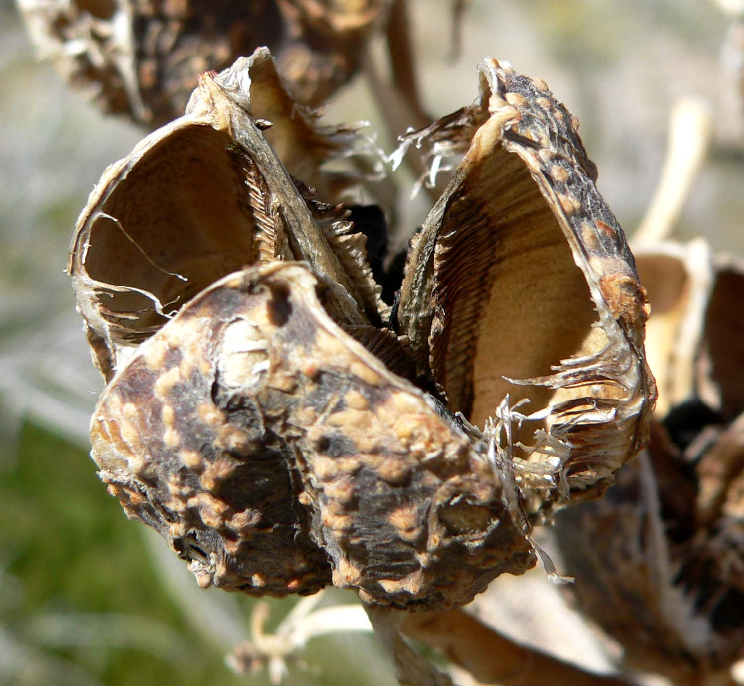 Photo of Yucca whipplei seedpod in the Santa Rosa Mountains above Palm Desert, California